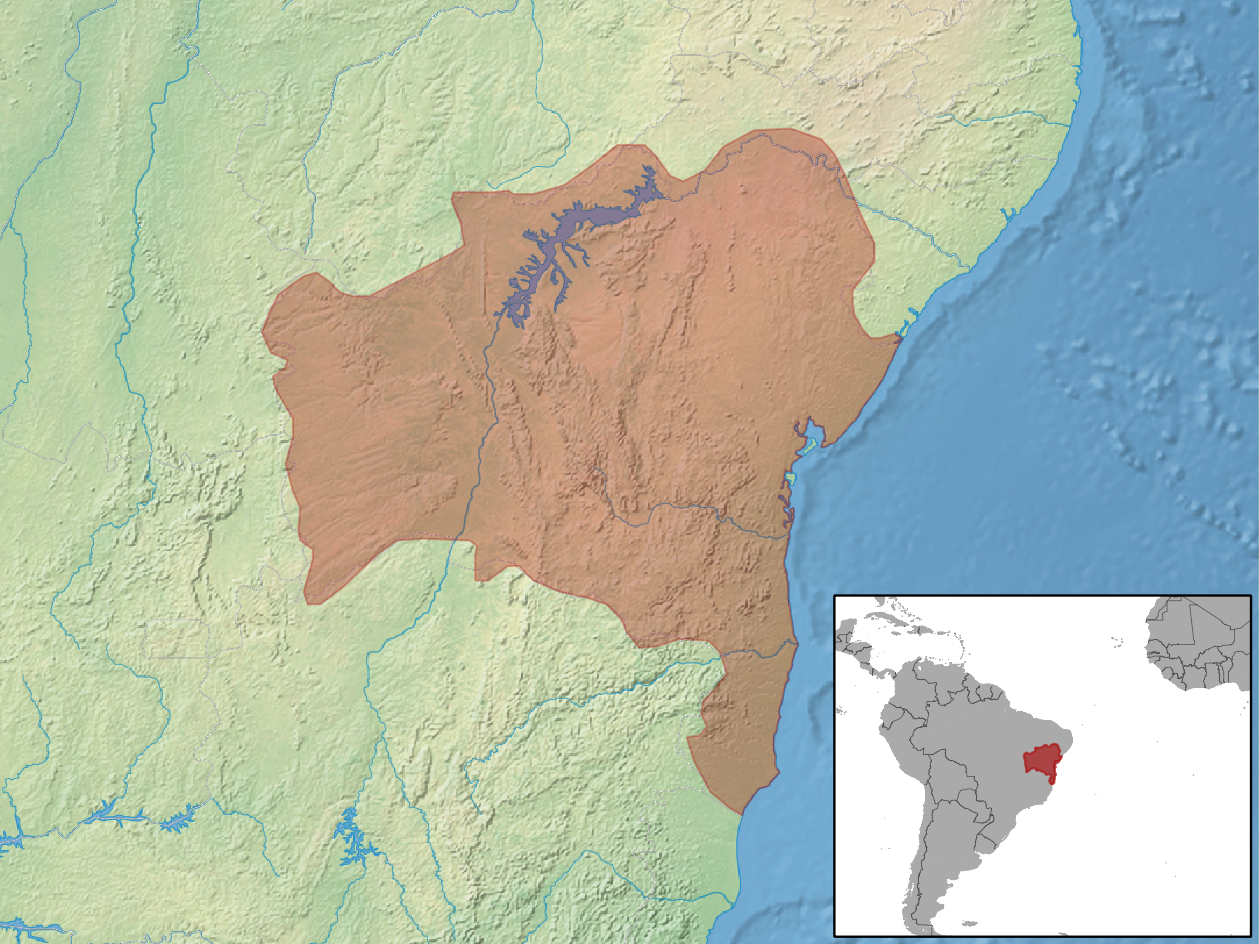 geographic distribution of Trinomys myosuros